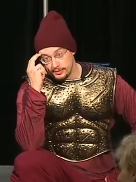 Sam Hyde at a TED talk, as seen in his most well-known video, "Sam Hyde's 2070 Paradigm Shift." The part of the video where the screenshot was taken is at 16:27